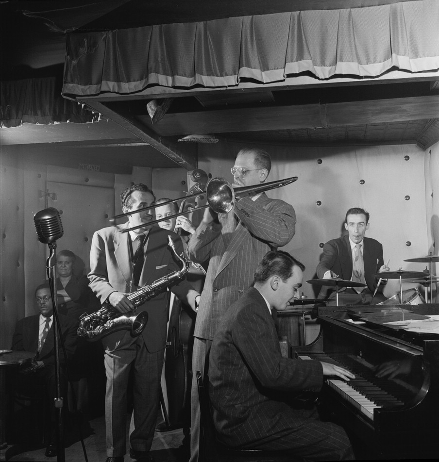 Charlie Ventura, unknown bassist, Bill Harris, Ralph Burns, and Dave Tough, Three Deuces, New York, N.Y., ca. April 1947